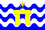 Flag of Mġarr, Malta